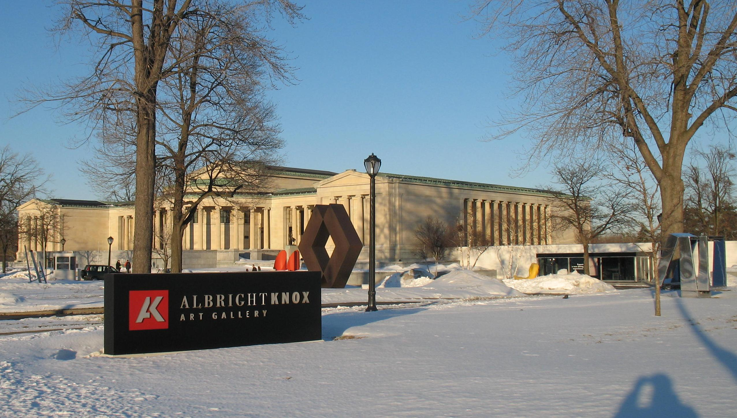 Albright-Knox Art Gallery